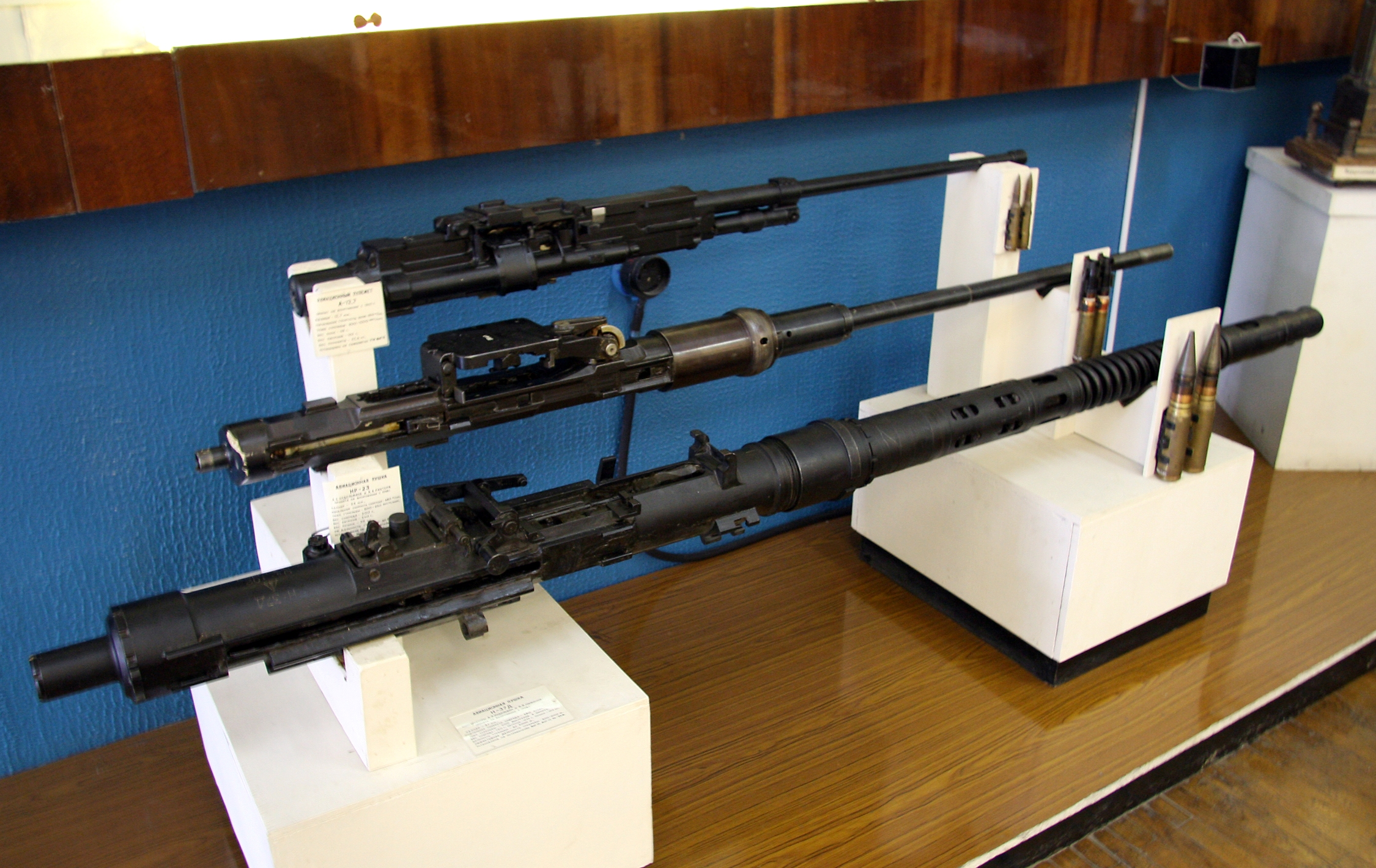 Air Defense History Museum in Zarya in Moscow Oblast: Afanasev A-12.7 machine-gun (rear), Nudel'man-Rikhter NR-23 (middle) and Nudel'man N-37D (front) aircraft cannons.